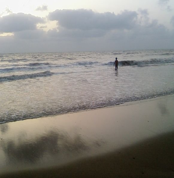 A scene on Dahanu Beach (Parnaka)